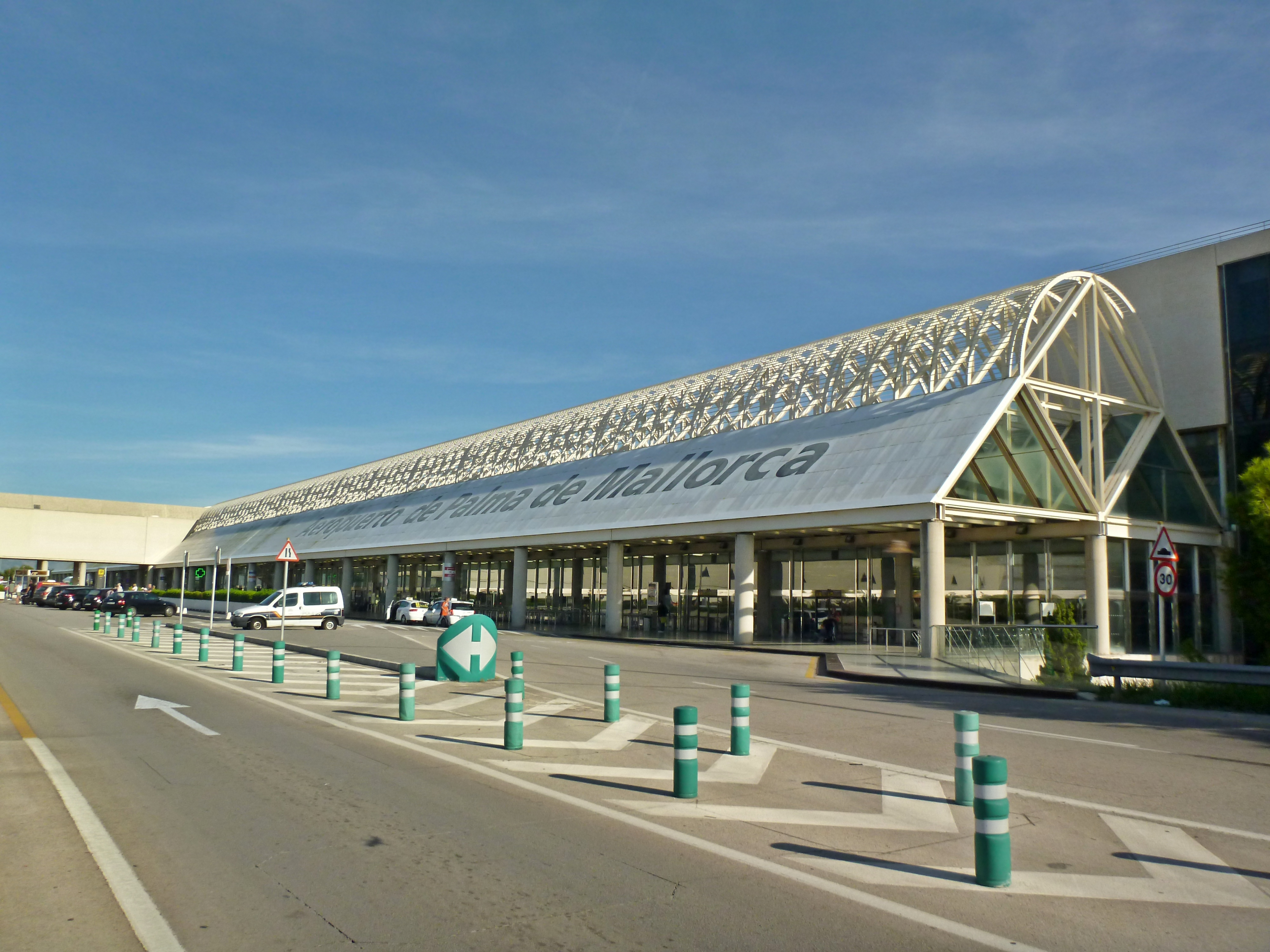 Terminal C of Palma de Majorca Airport